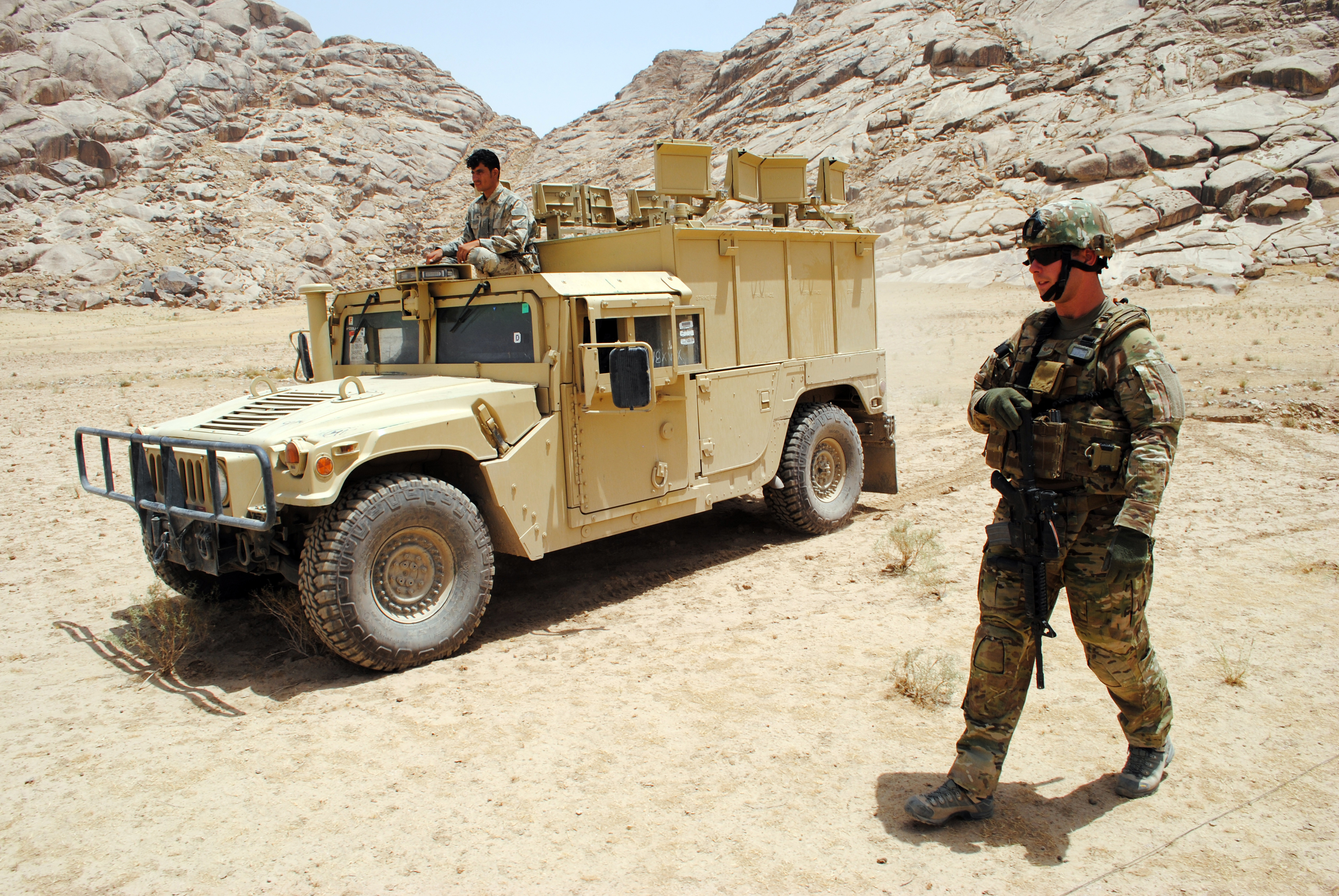 U.S. Air Force Staff Sgt. Jason Halgren, an explosive ordnance disposal craftsman with 466th Air Expeditionary Group, guides an Afghan Border Police vehicle before performing a controlled detonation in Spin Boldak District, Kandahar province, Afghanistan, July 28, 2013. This was joint effort between U.S. and Afghan forces to dispose of various pieces of ordnance recovered by the Afghan Border Police. (U.S. Army National Guard photo by Spc. Jovi Prevot)